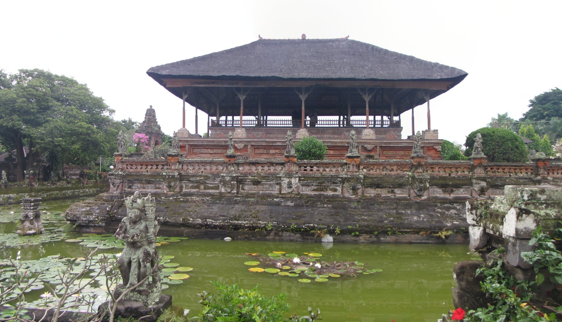 Klungkung Palace